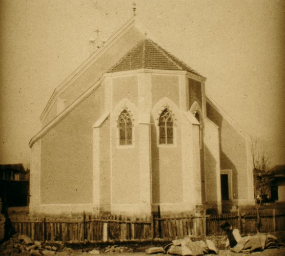 Roman Catholic church in Skopje, 1903.